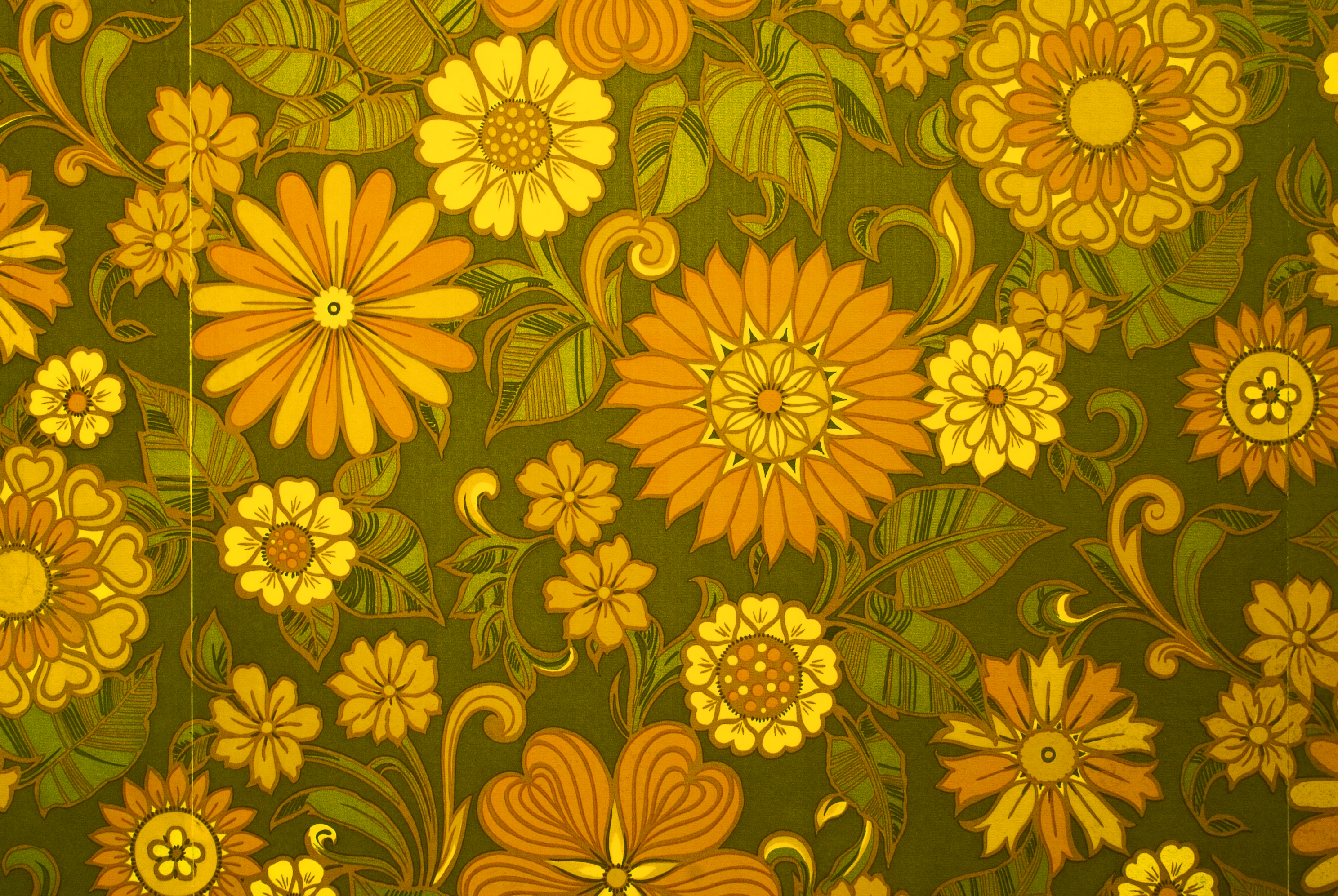 Typical 60s wallpaper